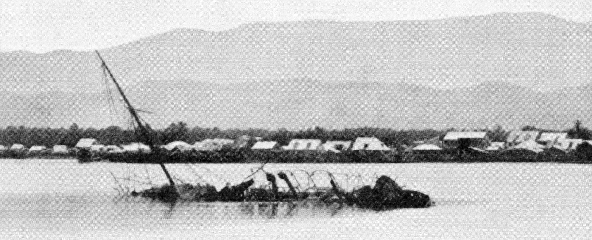 Wreck of the haitian gunboat Crete-a-Pierrot in Gonaives harbour. Picture from 6 september 1902 by SMS Panther